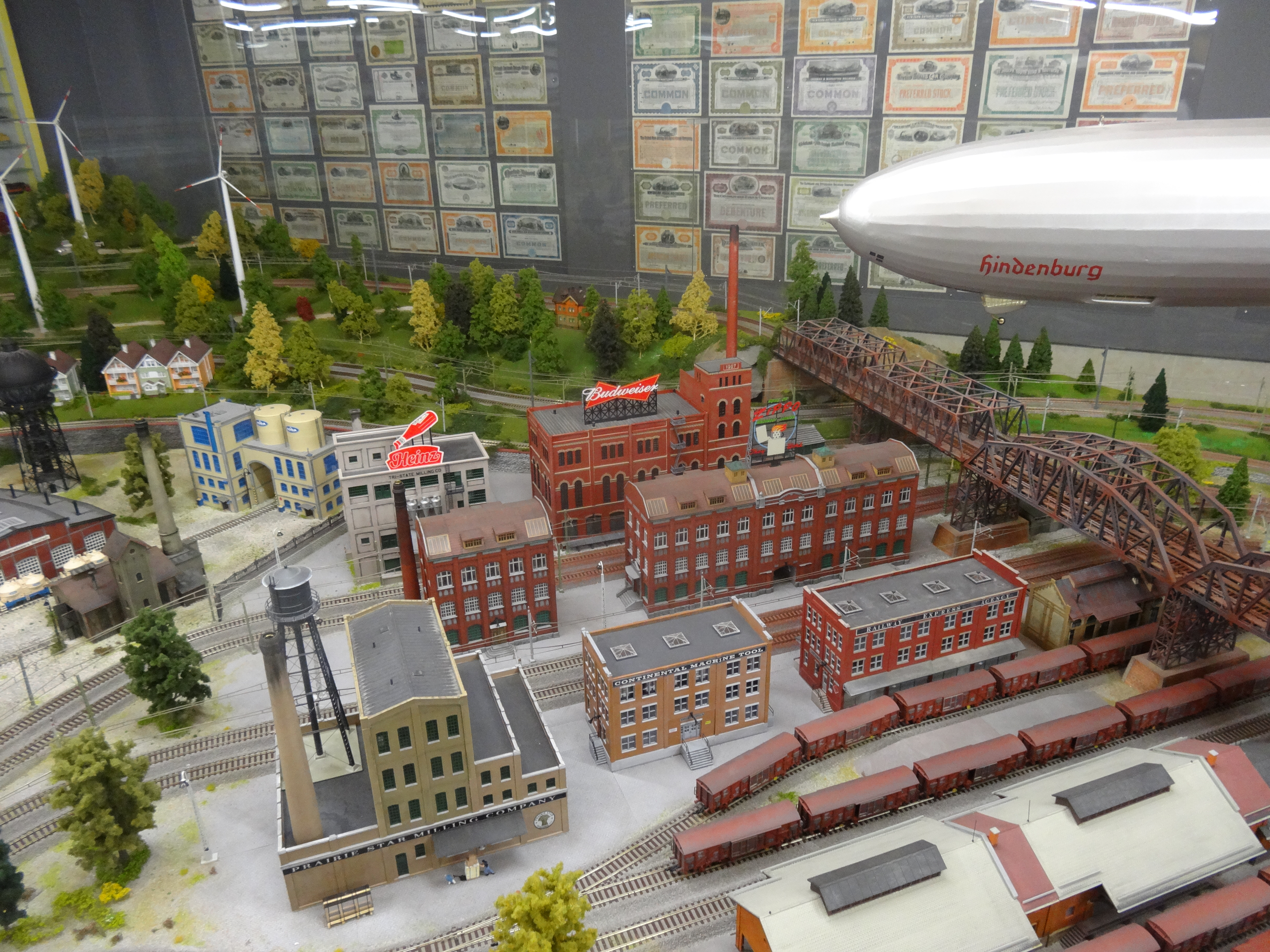 Railhome BCN, railway museum located in Igualada, province of Barcelona, displaying a model railway exhibition and many railway-related objects.